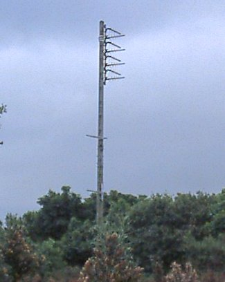 West Kirby television relay mast, Wirral, UK.